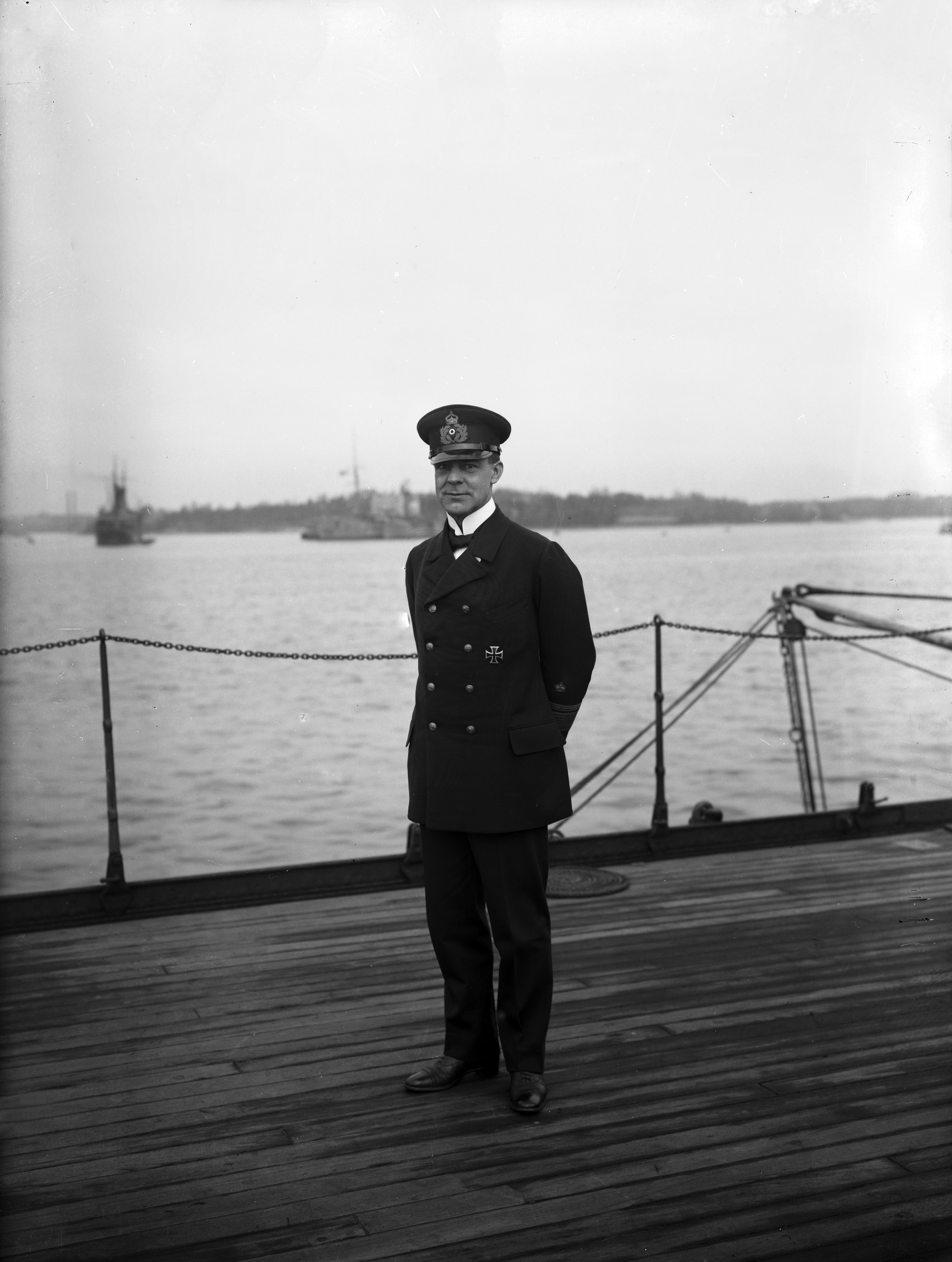 Photograph of the German Rear Admiral Hugo Meurer (1869–1960) in Helsinki.